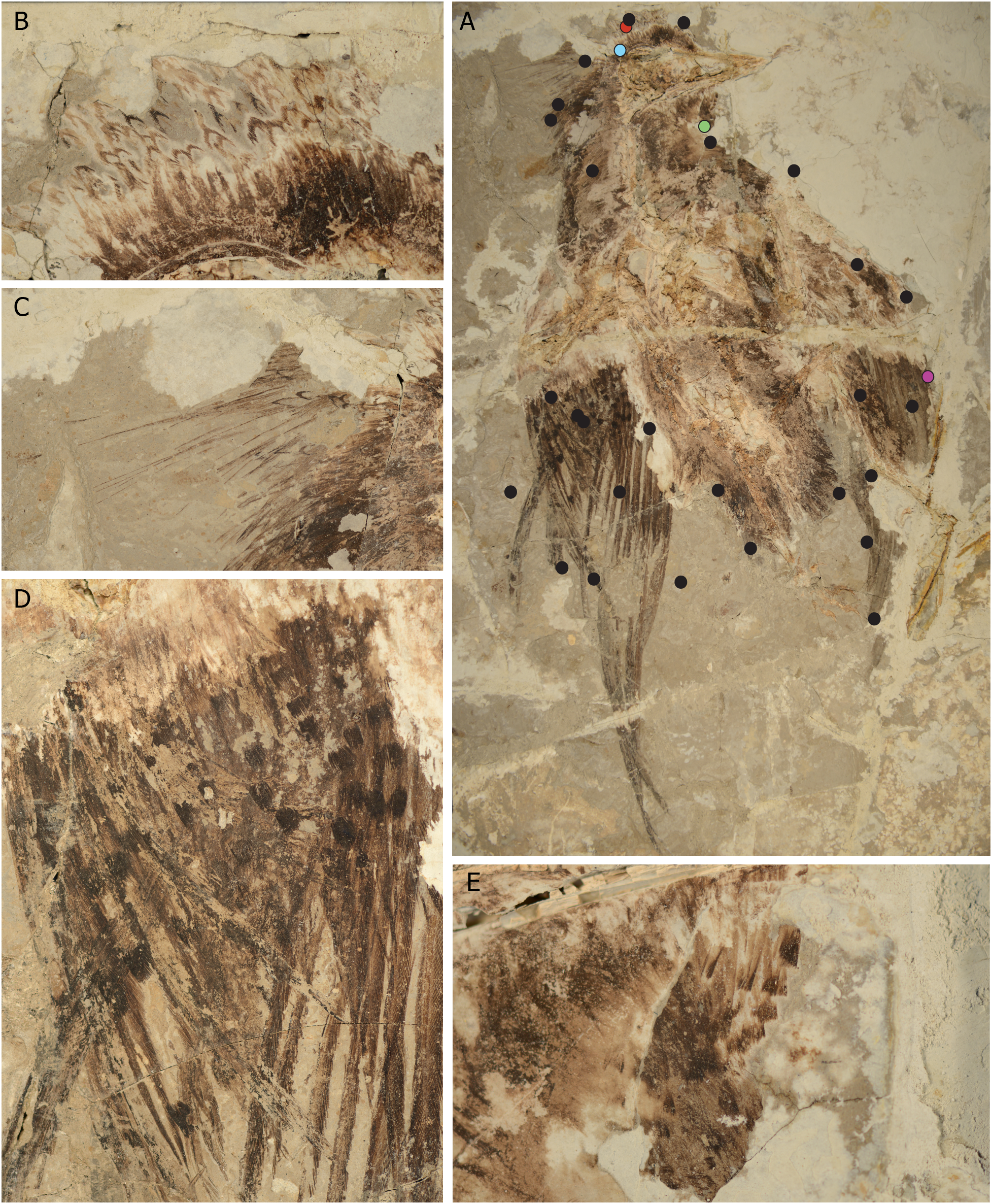 Evidence of plumage diversity in the Confuciusornithidae from the new Confuciusornis specimen (CUGB P1401). (A–D) The primary slab of CUGB P1401 showing details of the plumage including crest ornamentation on the (B) top and (C) back of the head as well as on the (D) secondary and (E) gular feathers. Dots indicate locations sampled for Raman and morphological analyses. Colored dots correspond to locations of SEM images and Raman spectra in Fig. 2.